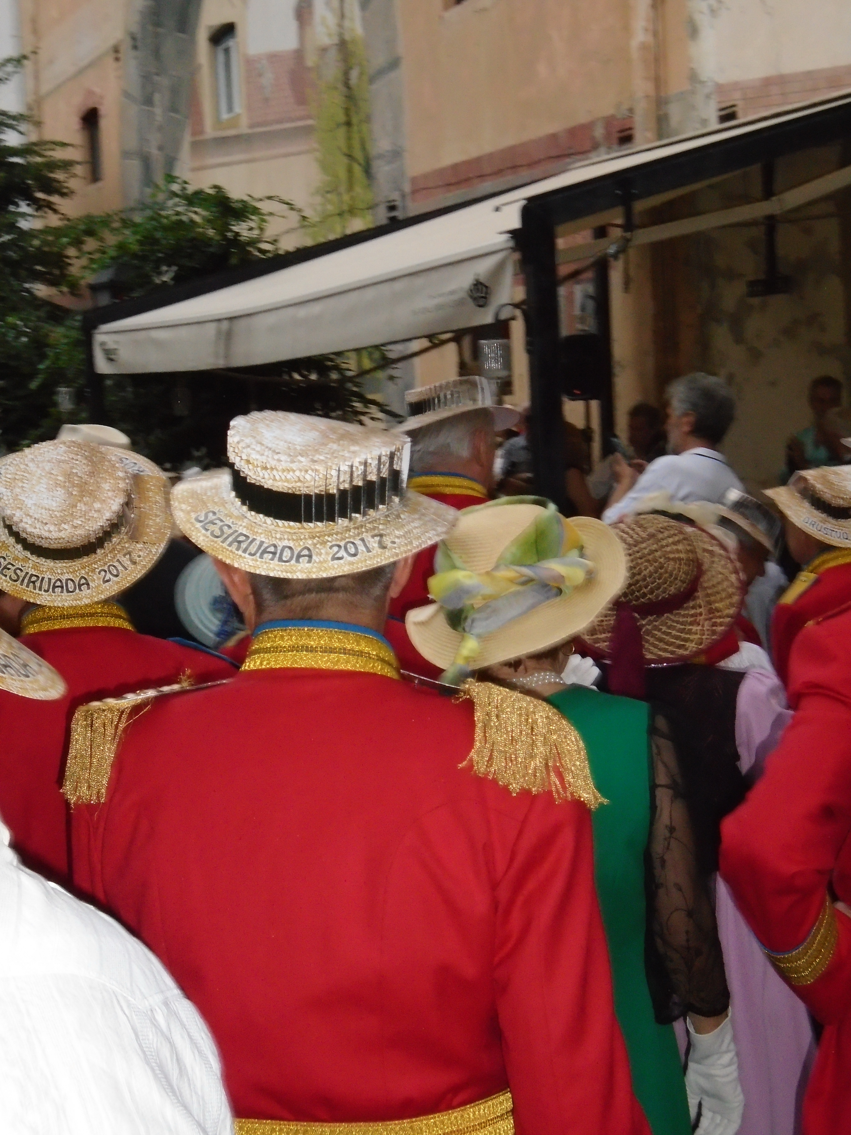 Hat fest in Skadarlija, Belgrade, Serbia, July 2017